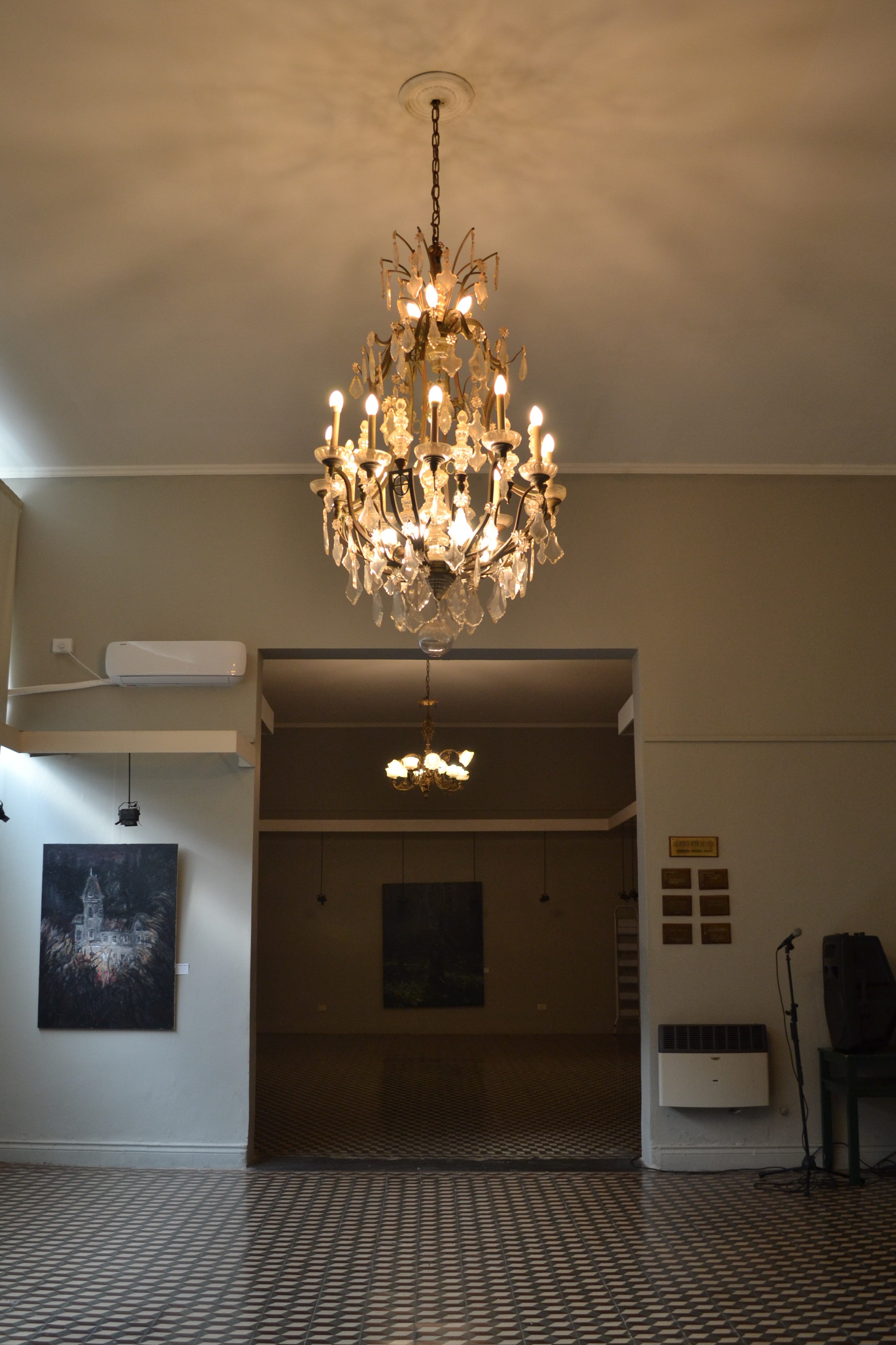 Salas de exposicion